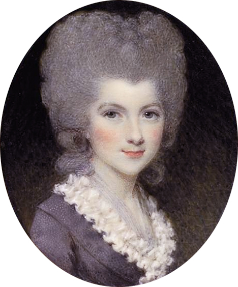 Portrait of Lavinia, Countess Spencer, née Bingham (1762-1831), in mauve dress with white frilled collar, powdered upswept hair